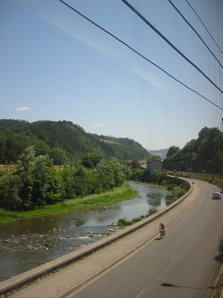 A view of some countryside in Spain. Source: Jaakko Sakari Reinikainen (ulayiti)